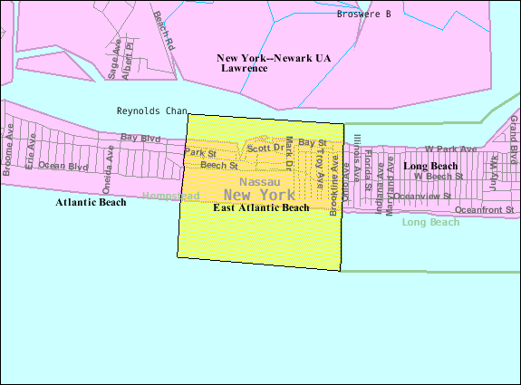 U.S. Census 2000 reference map for East Atlantic Beach